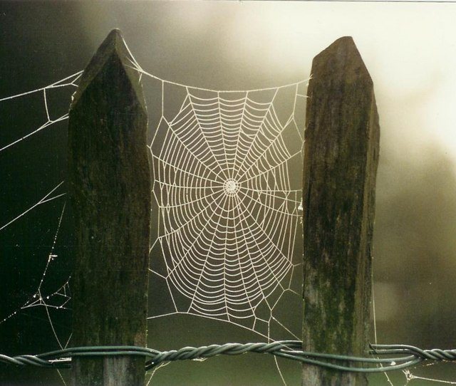 Dewy Cobweb